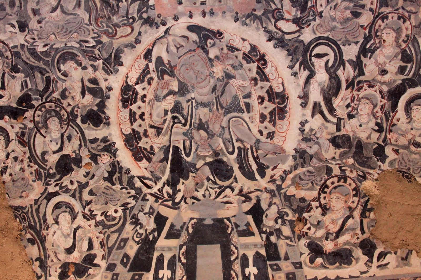 Chinese mural of a bodhisattva from Mogao Caves, Dunhuang, showing strong Central Asian influence, as well as the characteristics of Central Asian Mahayana Buddhism during this time.